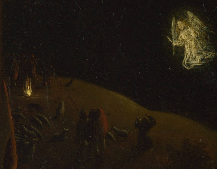 The Nativity at Night, c 1490